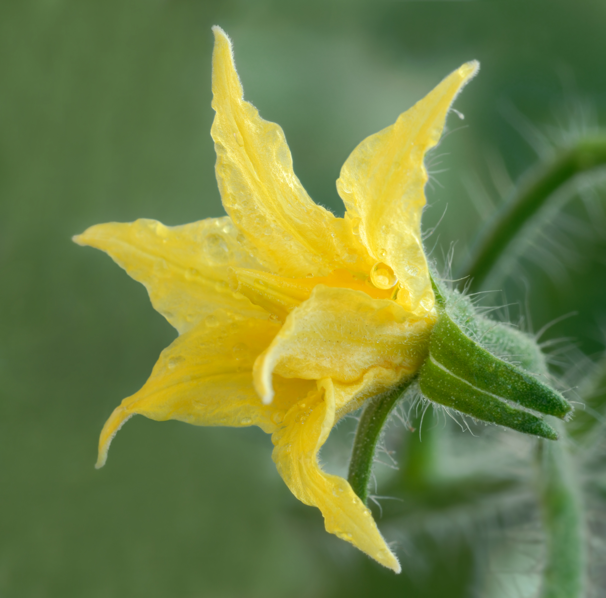 This image shows the flower of a tomato plant (Solanum lycopersicum).